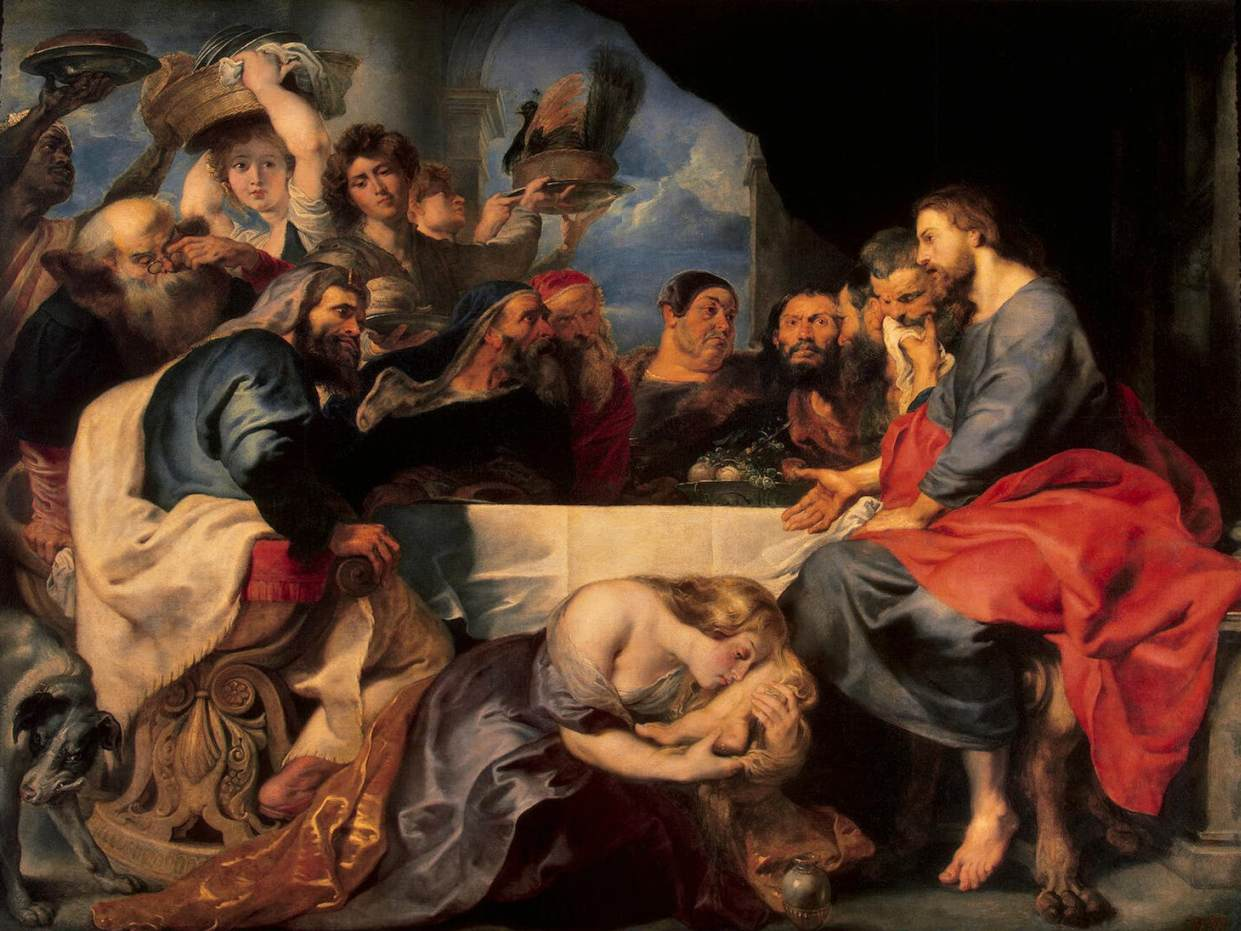 Feast of Simon the Pharisee